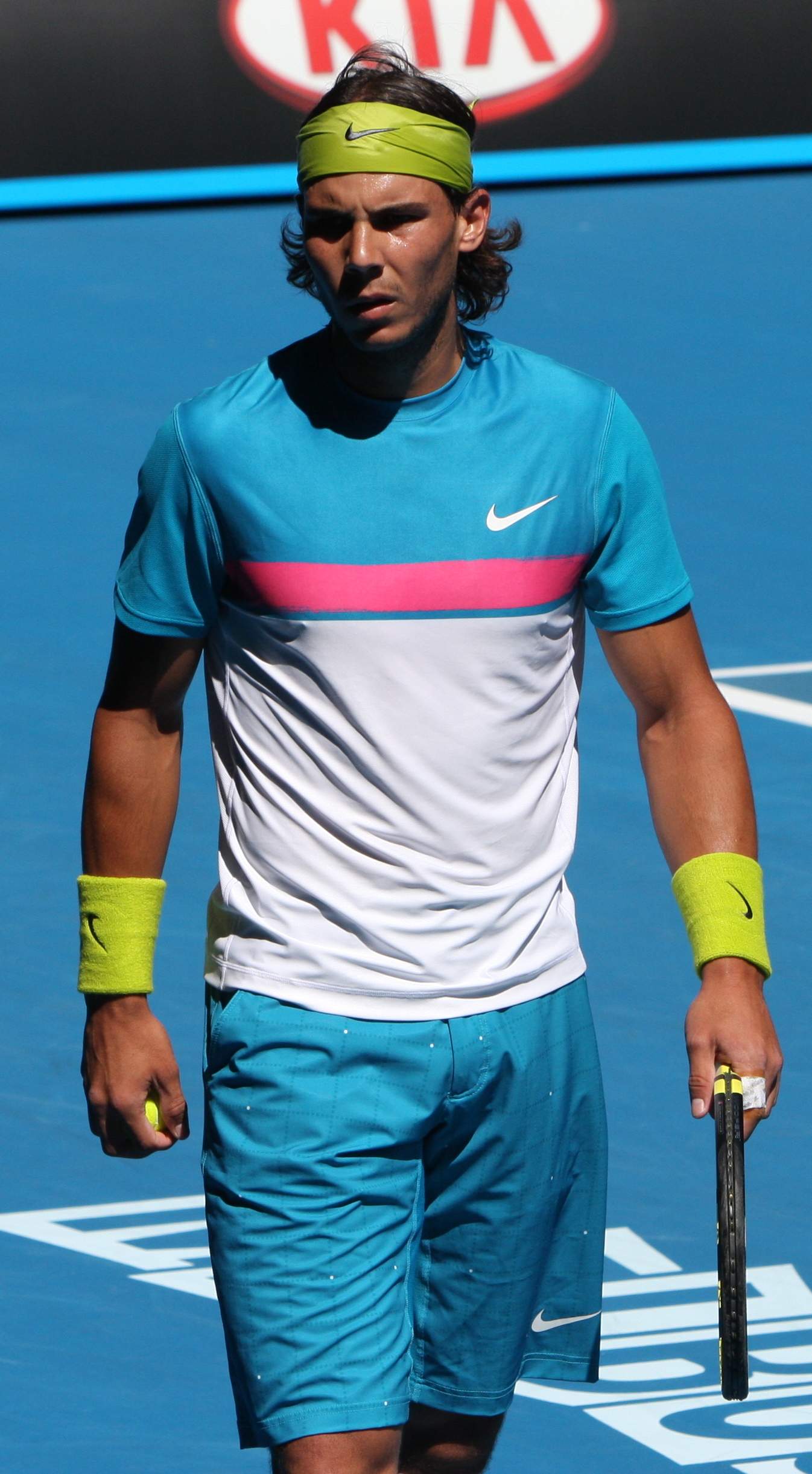 Rafael Nadal at 2009 Australian Open, Melbourne, Australia.